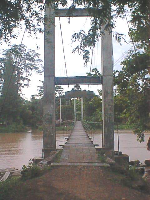 Bridge at Namtok Kaeng Song, taken by Kevin Borland, May 15, 2001. Bridge at Namtok Kaeng Song, taken by Kevin Borland, May 15, 2001.